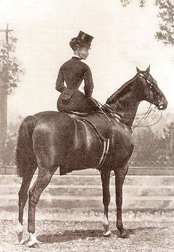 Catherine Walters (1839-1920) on the horse